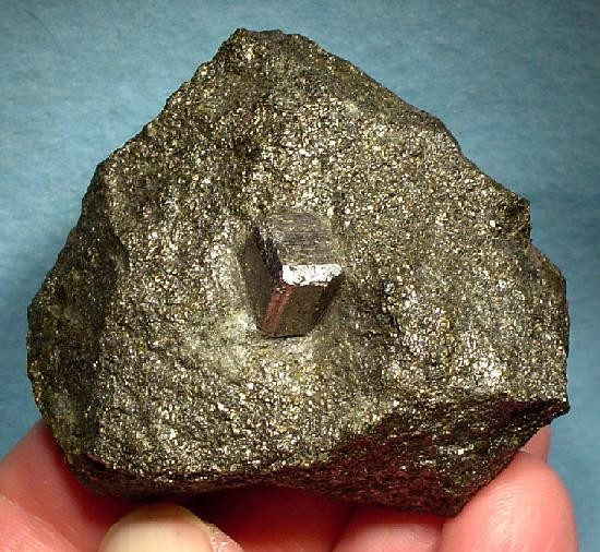 Cobaltite Locality: Håkansboda, Lindesberg, Västmanland, Sweden (Locality at ) Size: 5.8 x 5.2 x 3.3 cm. An extremely sharp and lustrous, 9 mm, modified cobaltite cube jauntily set on sulfide matrix from a CLASSIC Sweden locality - Hakansboda. This is an OLD mine, opened in the 17th century and worked until 1873, with only minor mining during World War I. Ex. Ed Ruggiero Collection, who purchased this fine piece from Chris Wright in 1975.